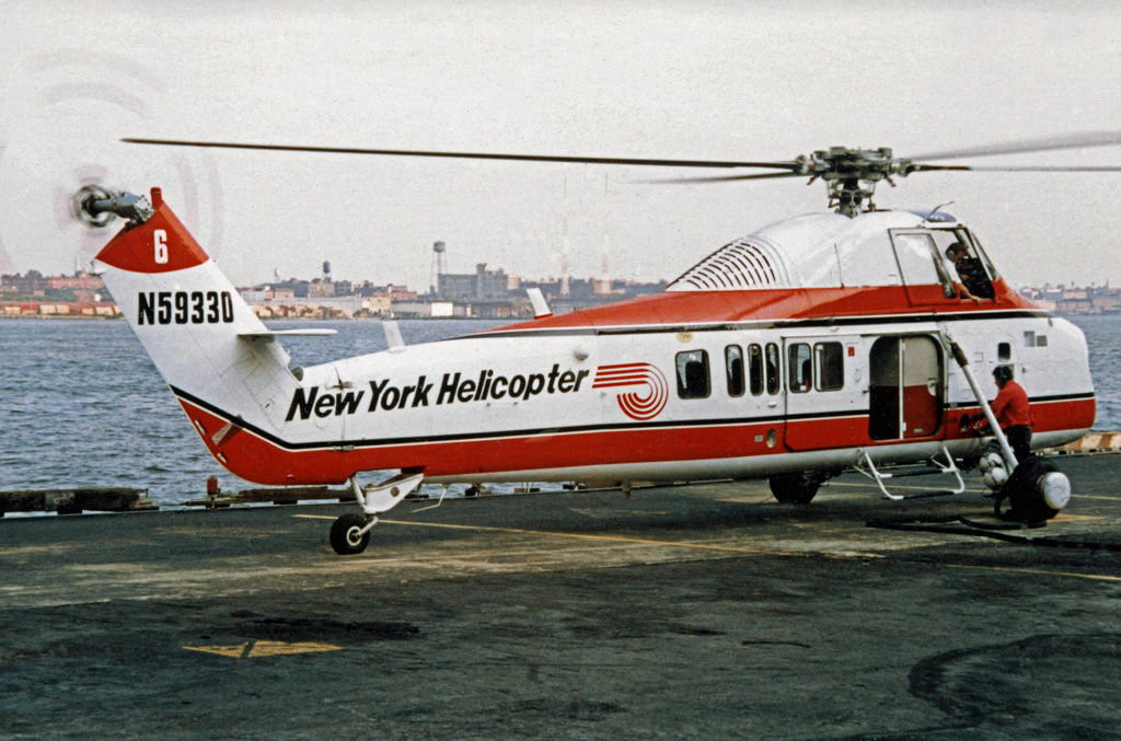 Sikorsky S-58ET N59330 of New York Helicopter at East 34th Street Heliport New York City in 1987